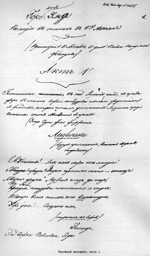 Gore ot uma by Alexander Griboedov. Author's manuscript